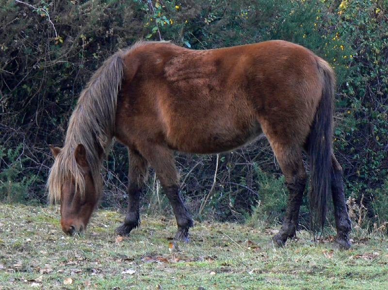 New Forest Pony